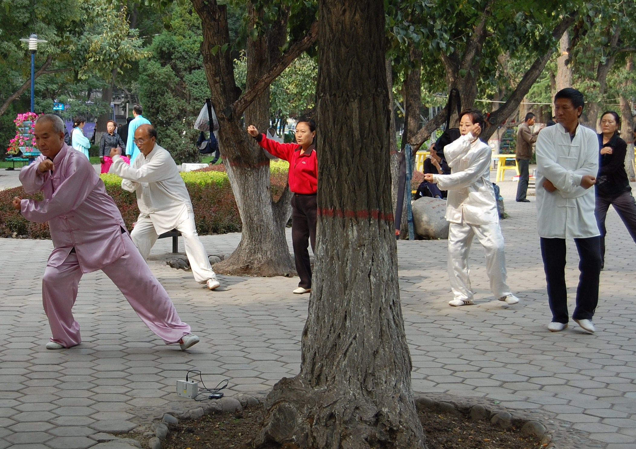 Taijiquan in Lanzhou, Gansu, China